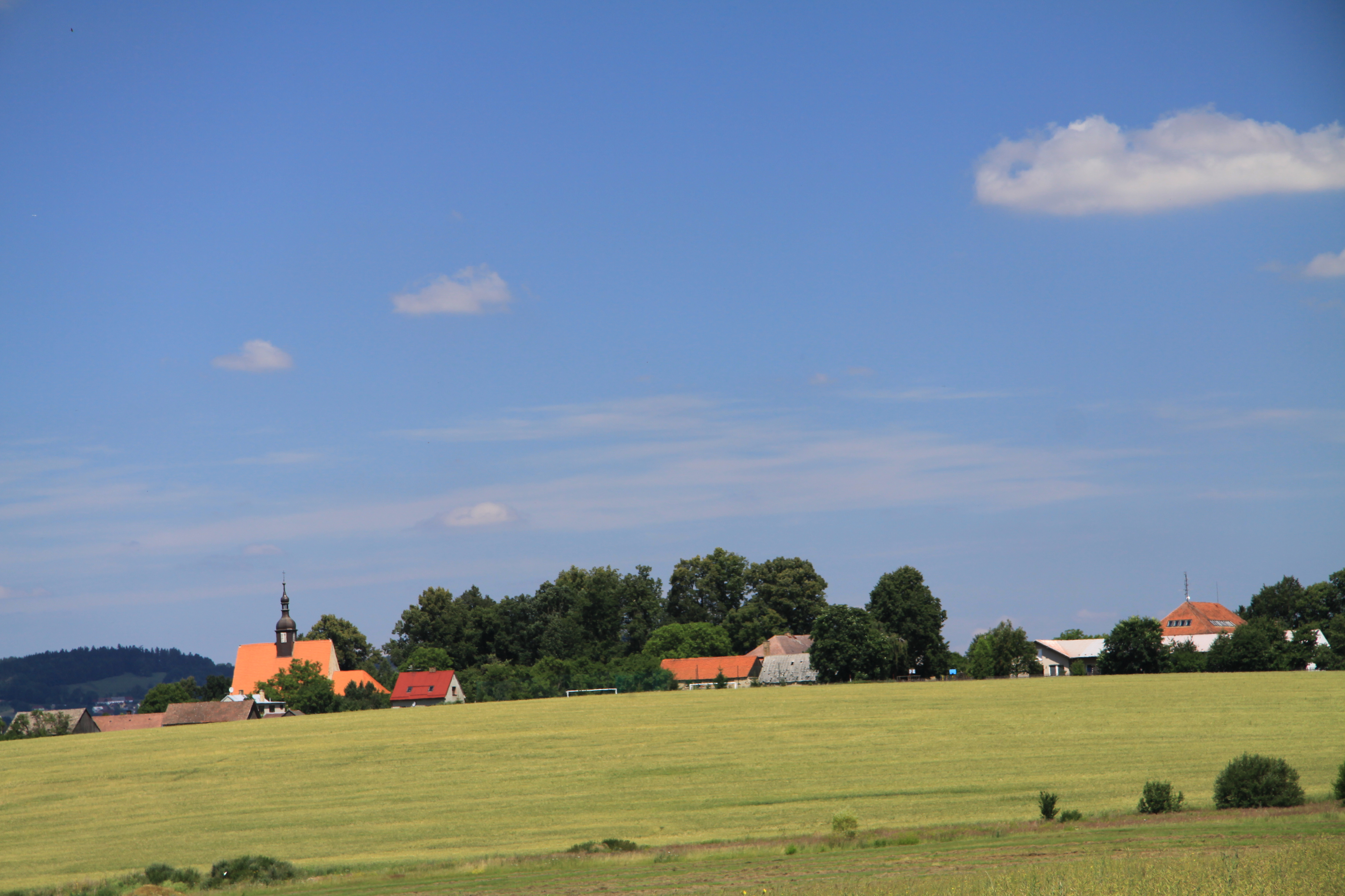 Dražice village in Tábor district, Czech Republic. View from countryroad southern from village. - Google Maps - Google Earth